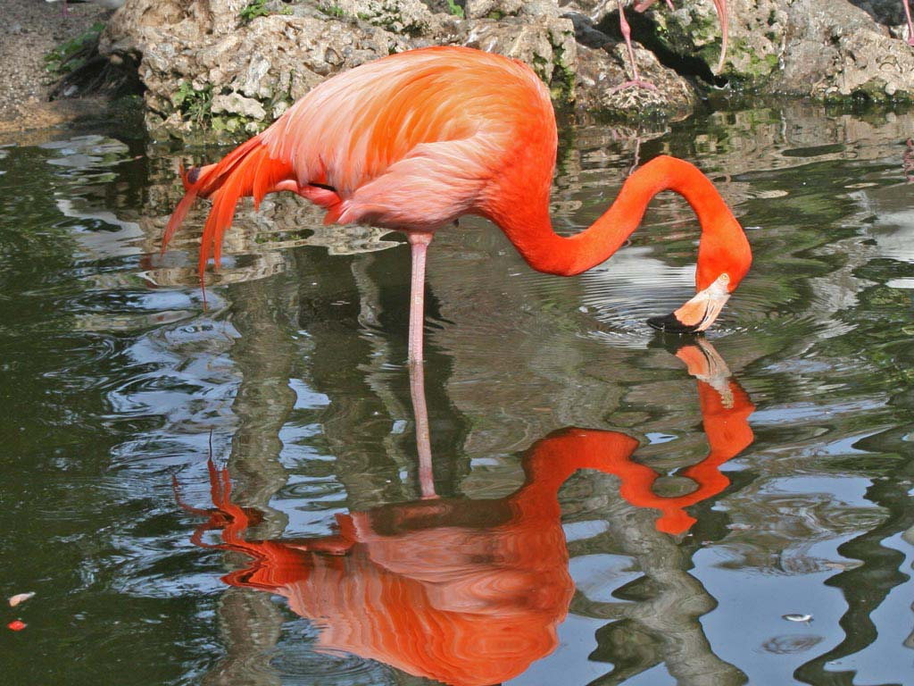 American Flamingo, also known as Caribberan Flamingo (Phoenicopterus ruber) - Flamingo Gardens, Davie, Florida